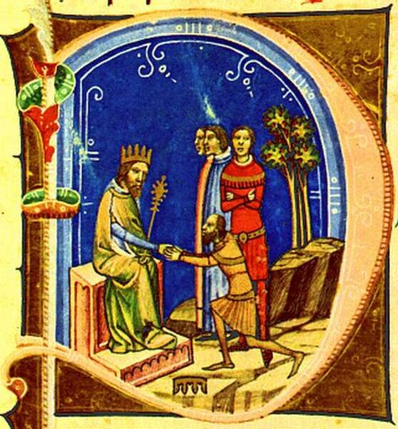 Salamon hungarian king please help to IV. Henrik imperator.